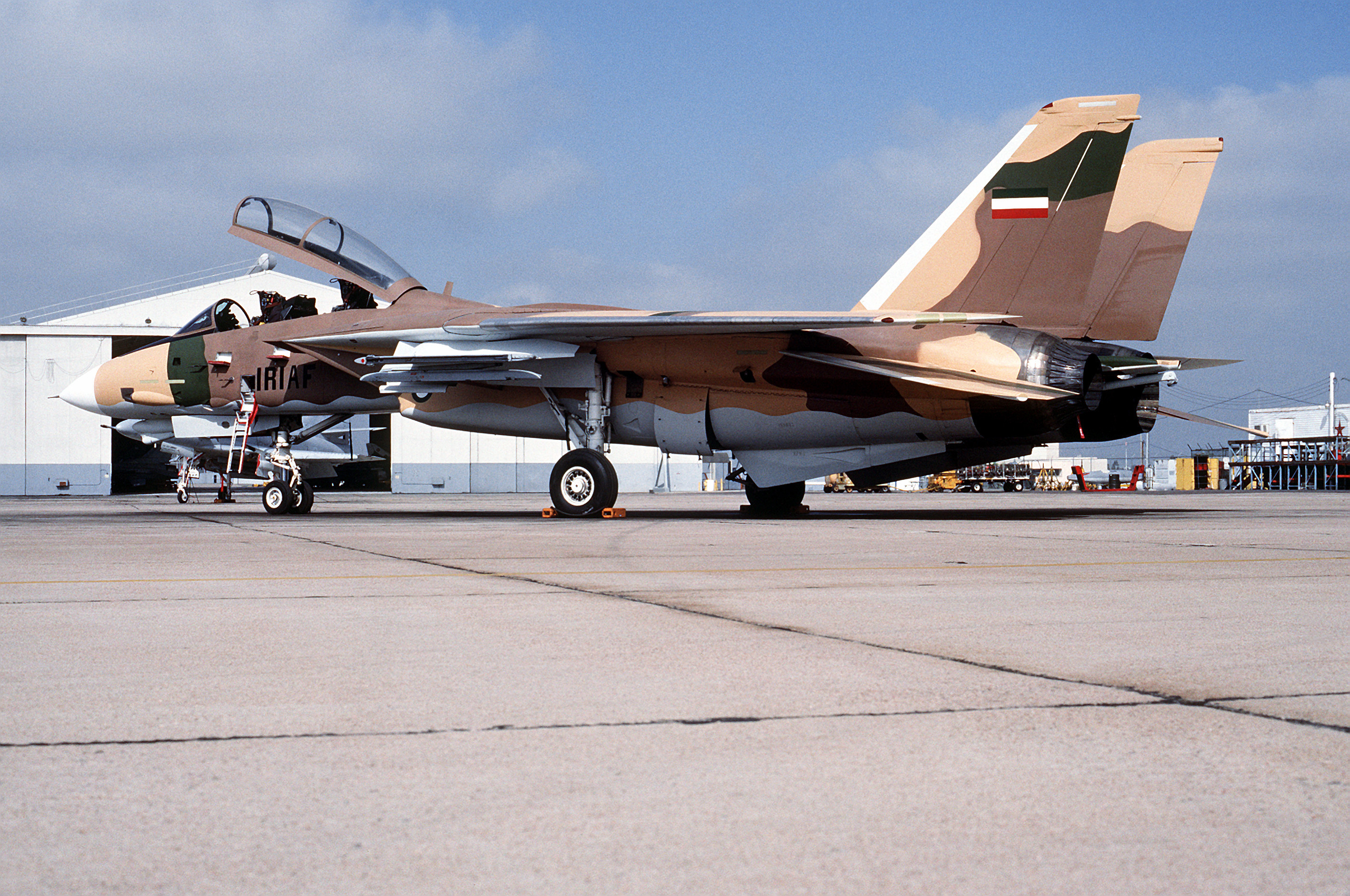 A left side view of an F-14A Tomcat aircraft from the Navy Fighter Weapons School. The aircraft, bearing the fin flash of Iran, is being used in adversary training for Pacific Fleet-based squadrons. Location: NAVAL AIR STATION, MIRAMAR, CALIFORNIA (CA) UNITED STATES OF AMERICA (USA)